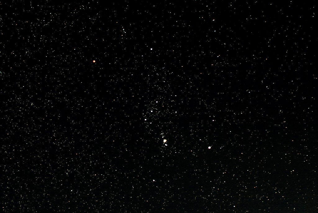 Orion